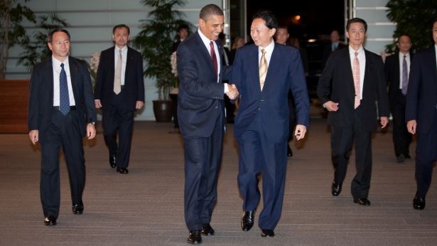 Barack Obama, President, met Yukio Hatoyama, Prime Minister, at the Kantei in Chiyoda Ward, Tōkyō Metropolis on November 13, 2009.